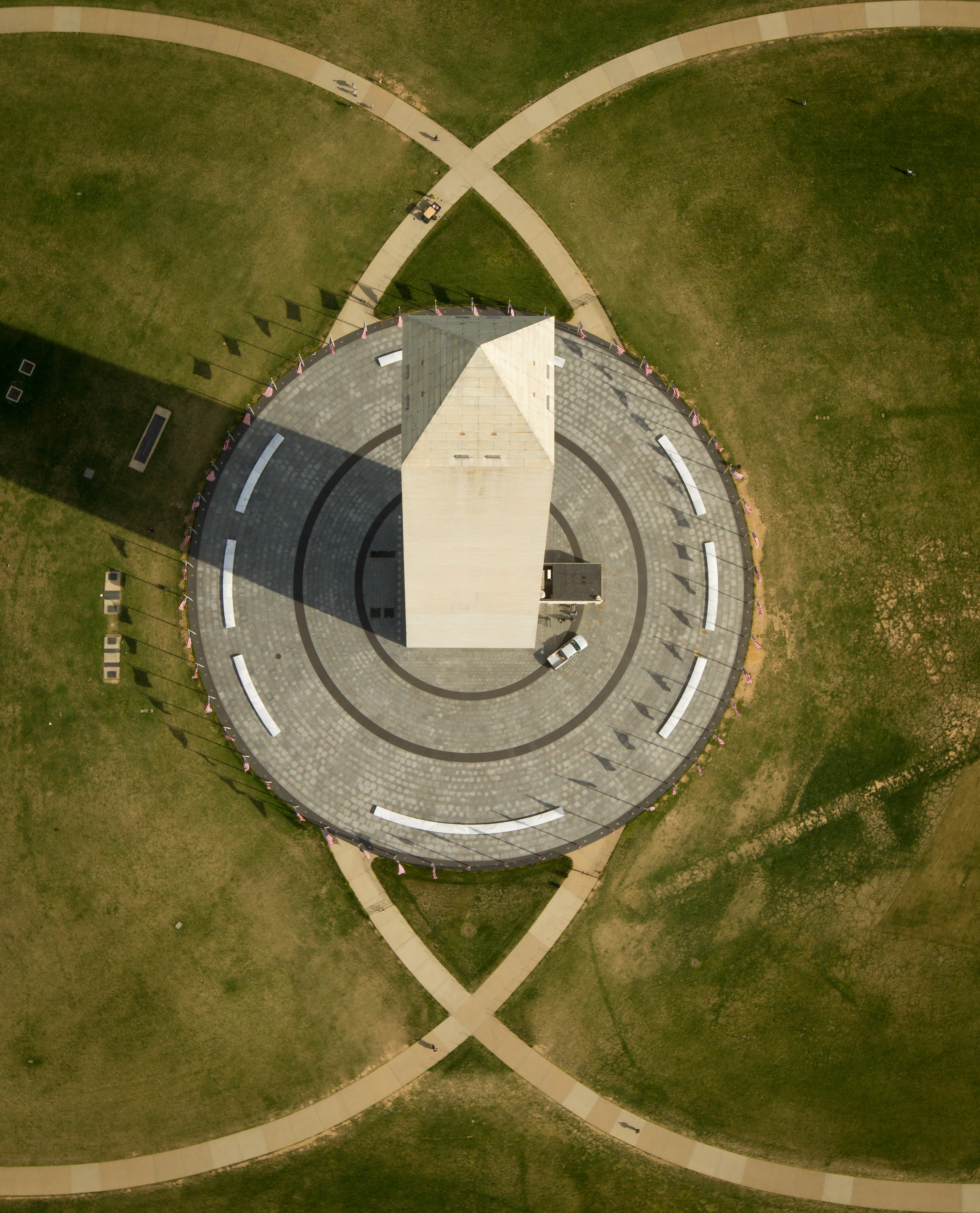 Overhead view of Washington Monument taken April 5, 2012 by a NASA T-38 aircraft.